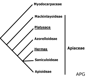 Apiaceae APG